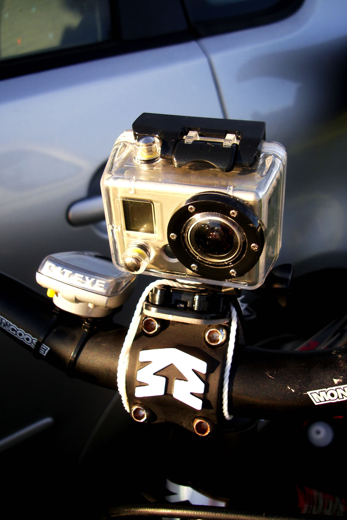 A GoPro Hero HD on a bicycle mount in July 2011.